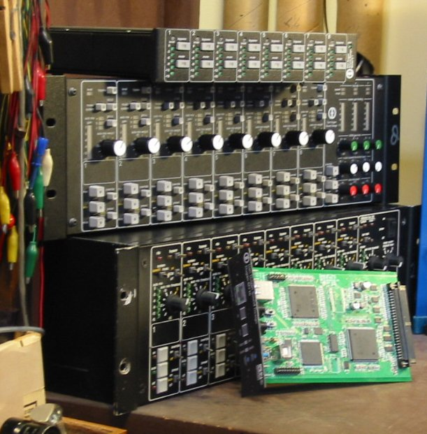 Stack of automixers produced by Dan Dugan. In front is the Yamaha Dugan-MY16 card, behind that on the bottom of the stack is a Dugan Model D. Above the D is a remote control unit for the Model D-2 and D-3. The half rack unit on top is a Model E-1.